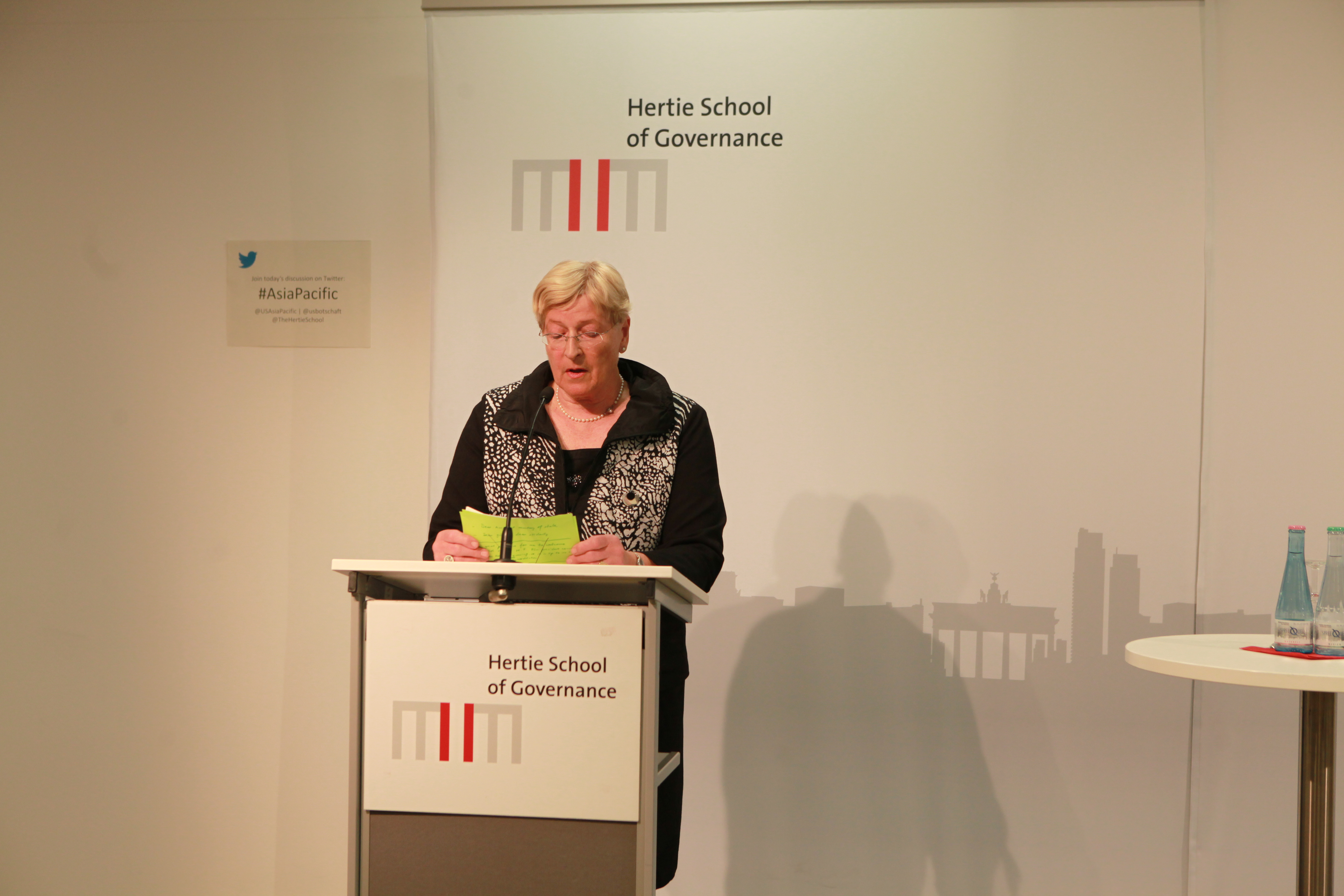 Marina Frost of the Hertie School welocomes A/S Russel